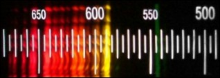 Ne-Spectrum. Own picture. Anton 2005